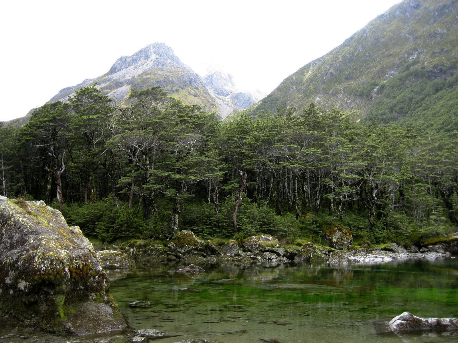 Blue Lake, Nelson, New Zealand in January, 2007